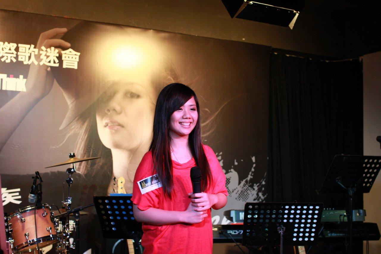 Hong Kong singer Sharon Lee (李昊嘉) at the 2010 Ms Sharon Lee's Birthday Party.